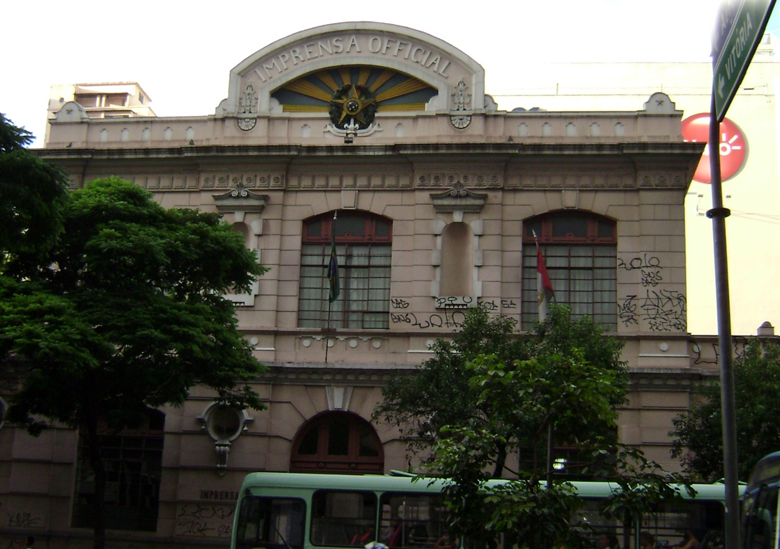 Imprensa Official, em Belo Horizonte.